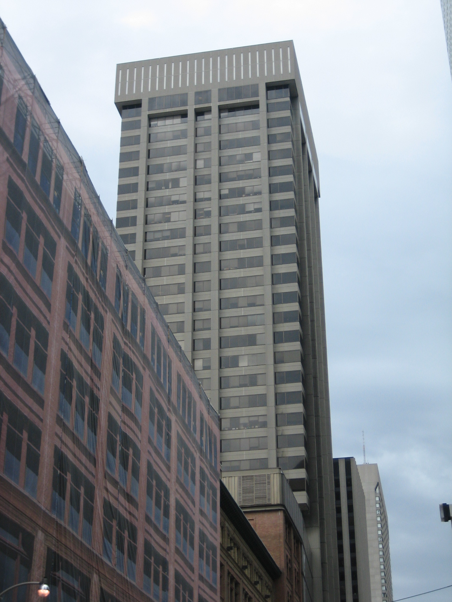 Simpson Tower, which has the corporate headquarters of Hudson's Bay Company, The Bay, and Home Outfitters